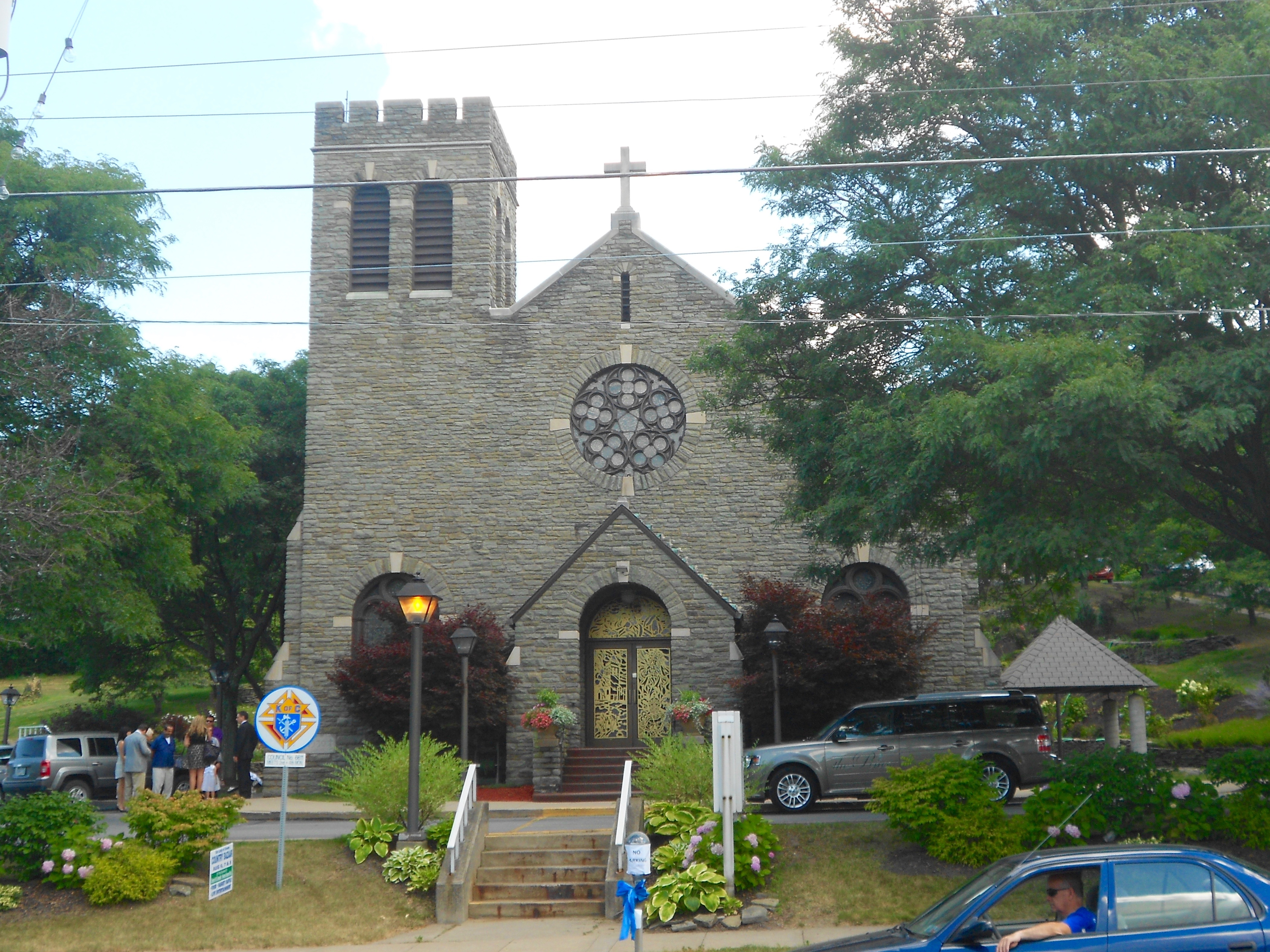 Roman Catholic church in downtown Clarks Summit, Lackawanna County, Pennsylvania